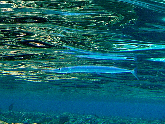 Tylosurus choram